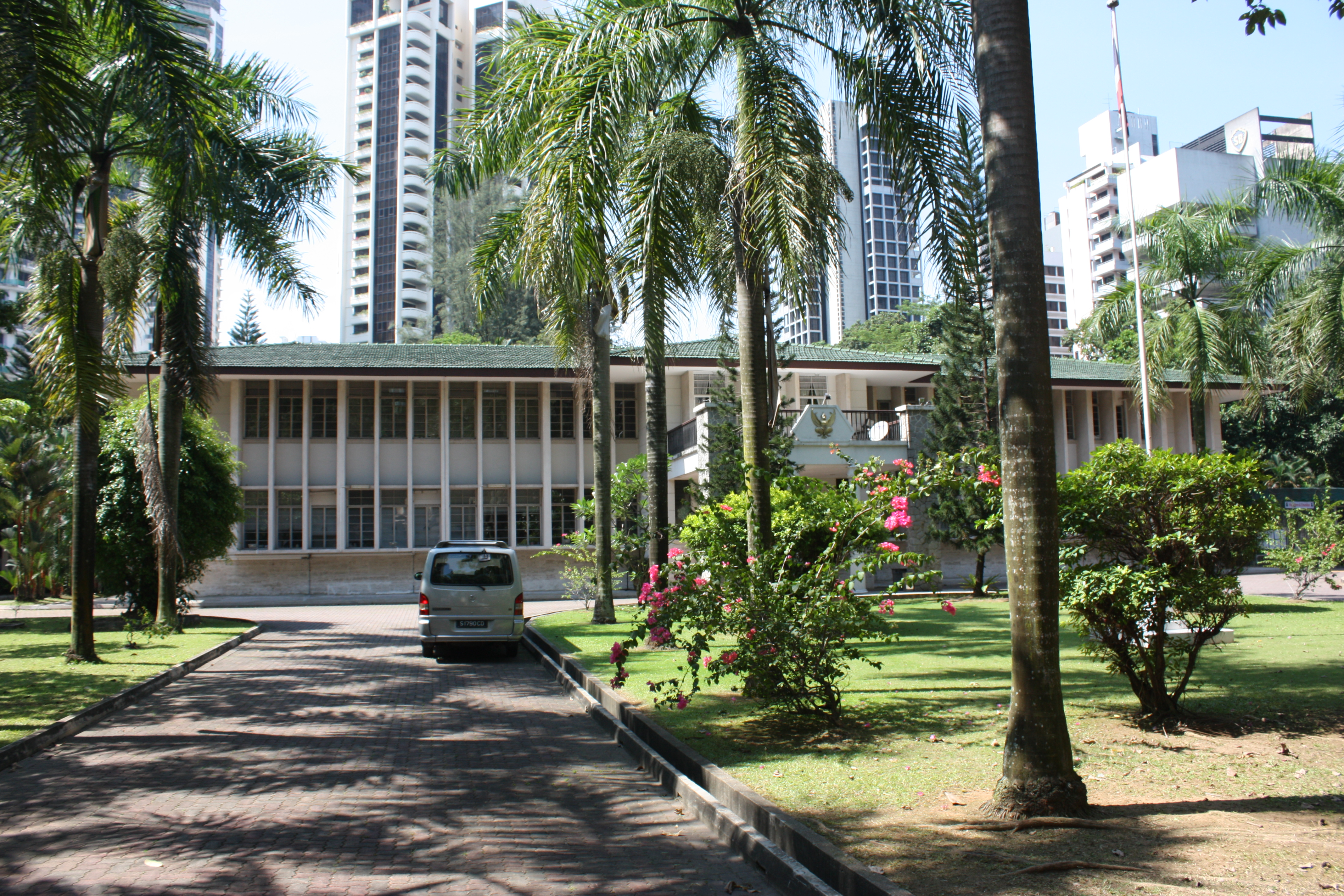 Royal Thai Embassy in Singapore taken by Wolfgang Holzem /